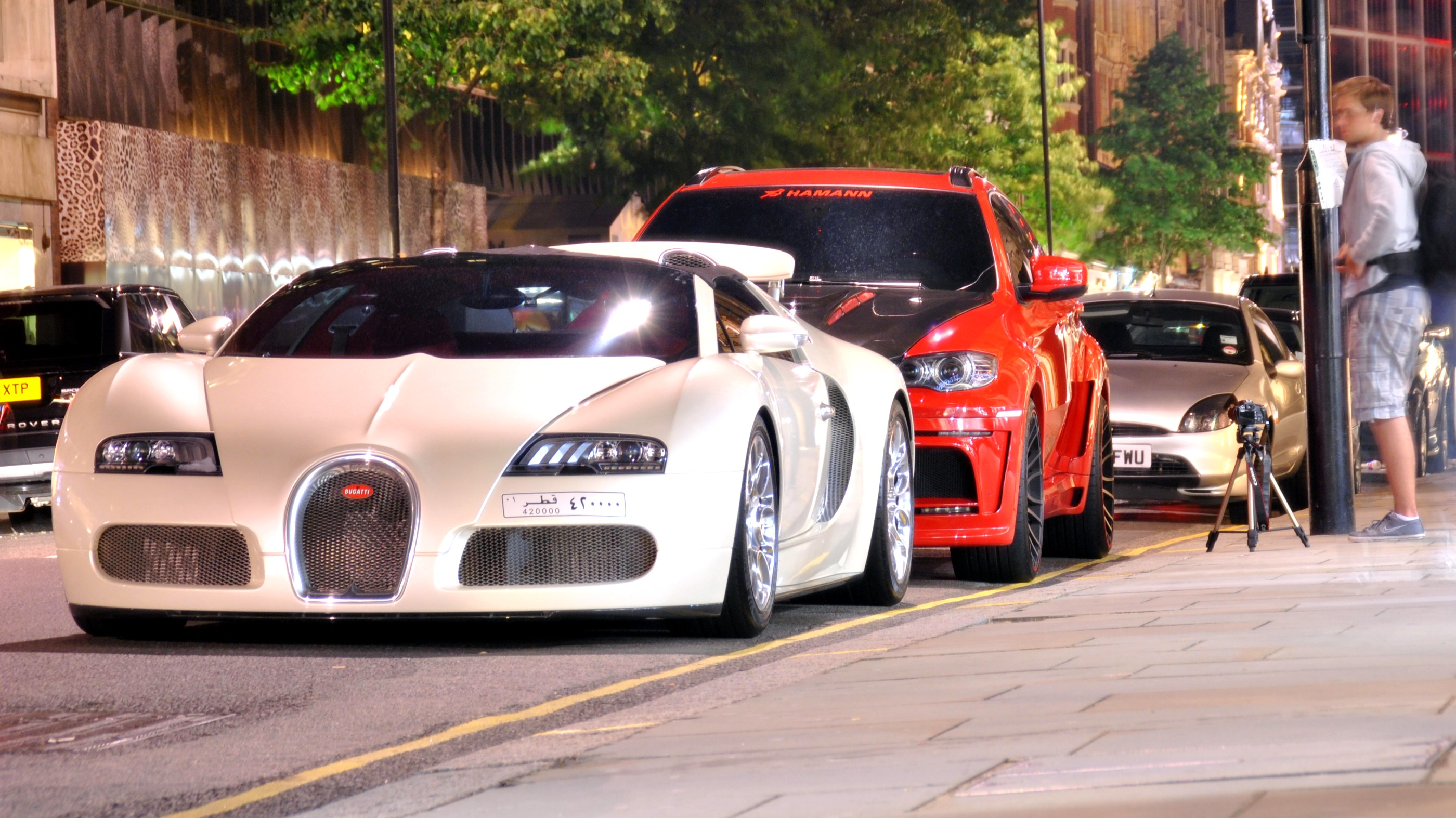 Follow @torquespeak for more automotive goodness.